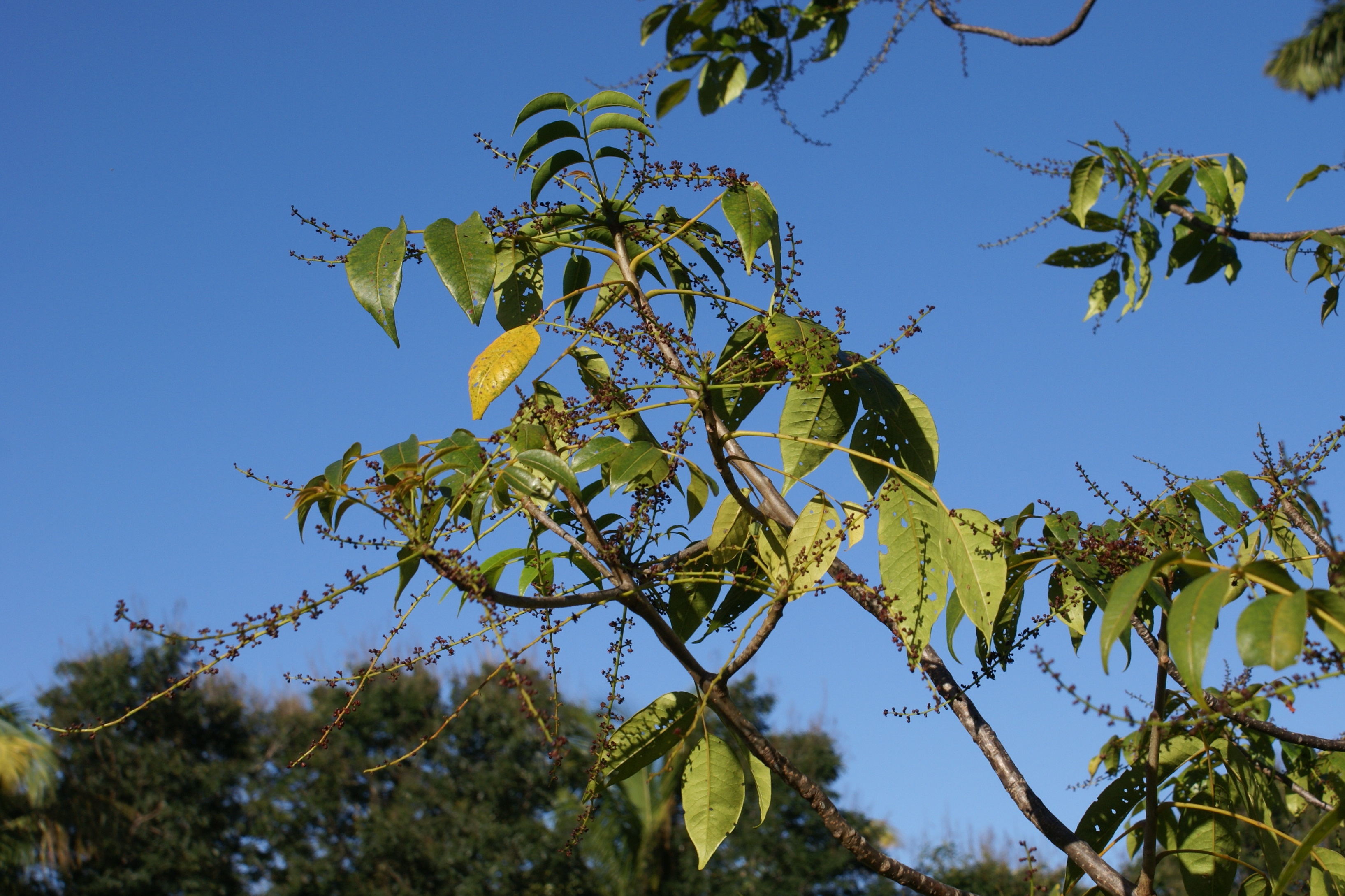 Poupartia borbonica, beginning of blossom